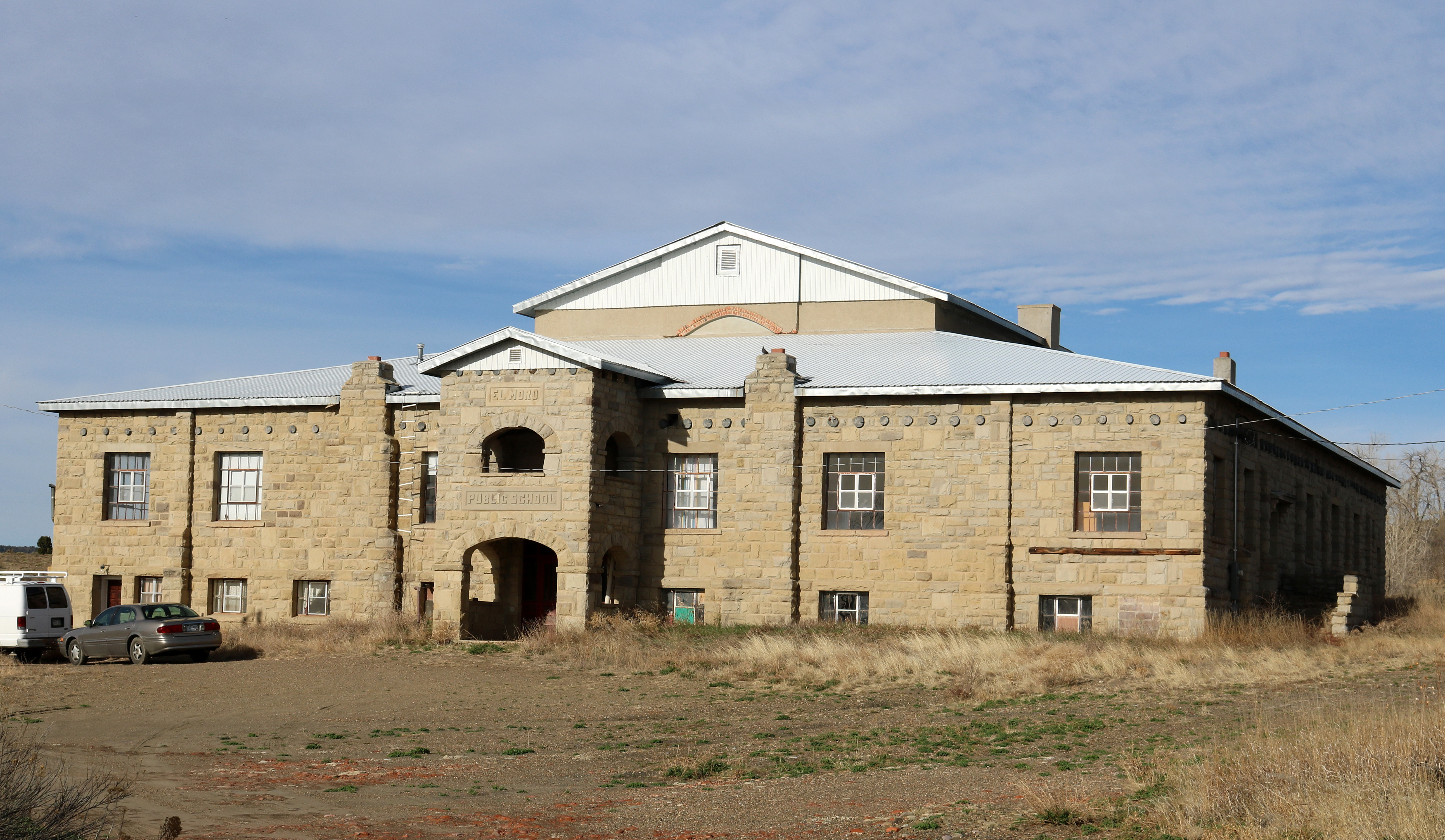 The old El Moro Public School, now privately held, on Las Animas County Road 75, in El Moro, Colorado. El Moro is a census-designated place.